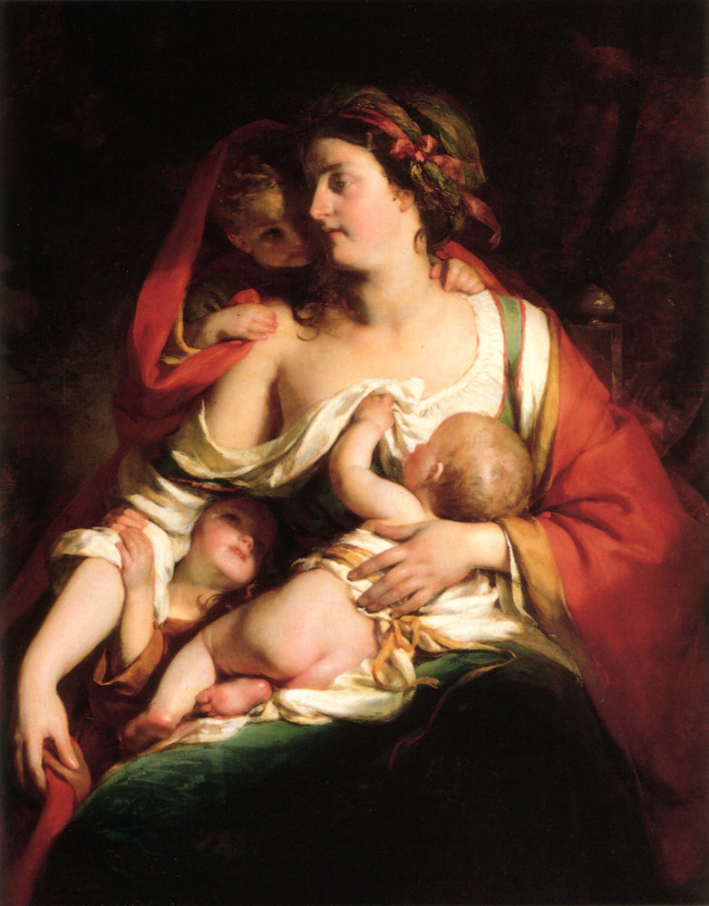 Amerling Friedrich von Mutter Und Kinden.